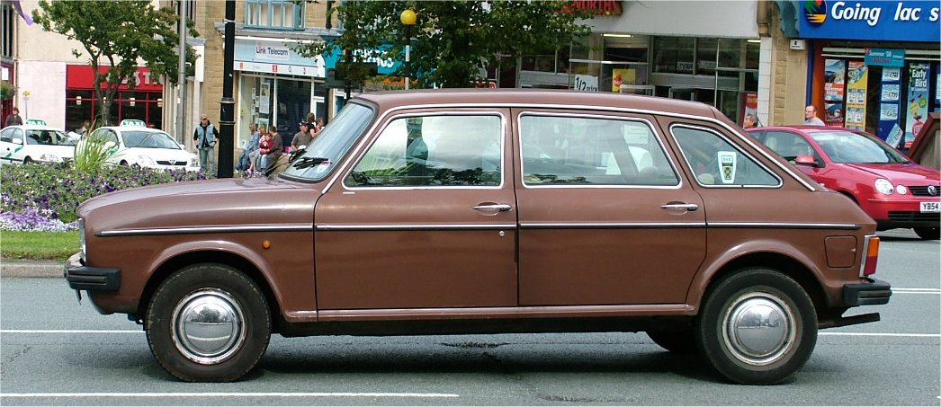 Austin Maxi 2 car, photographed in Ilkley 23 September 2007